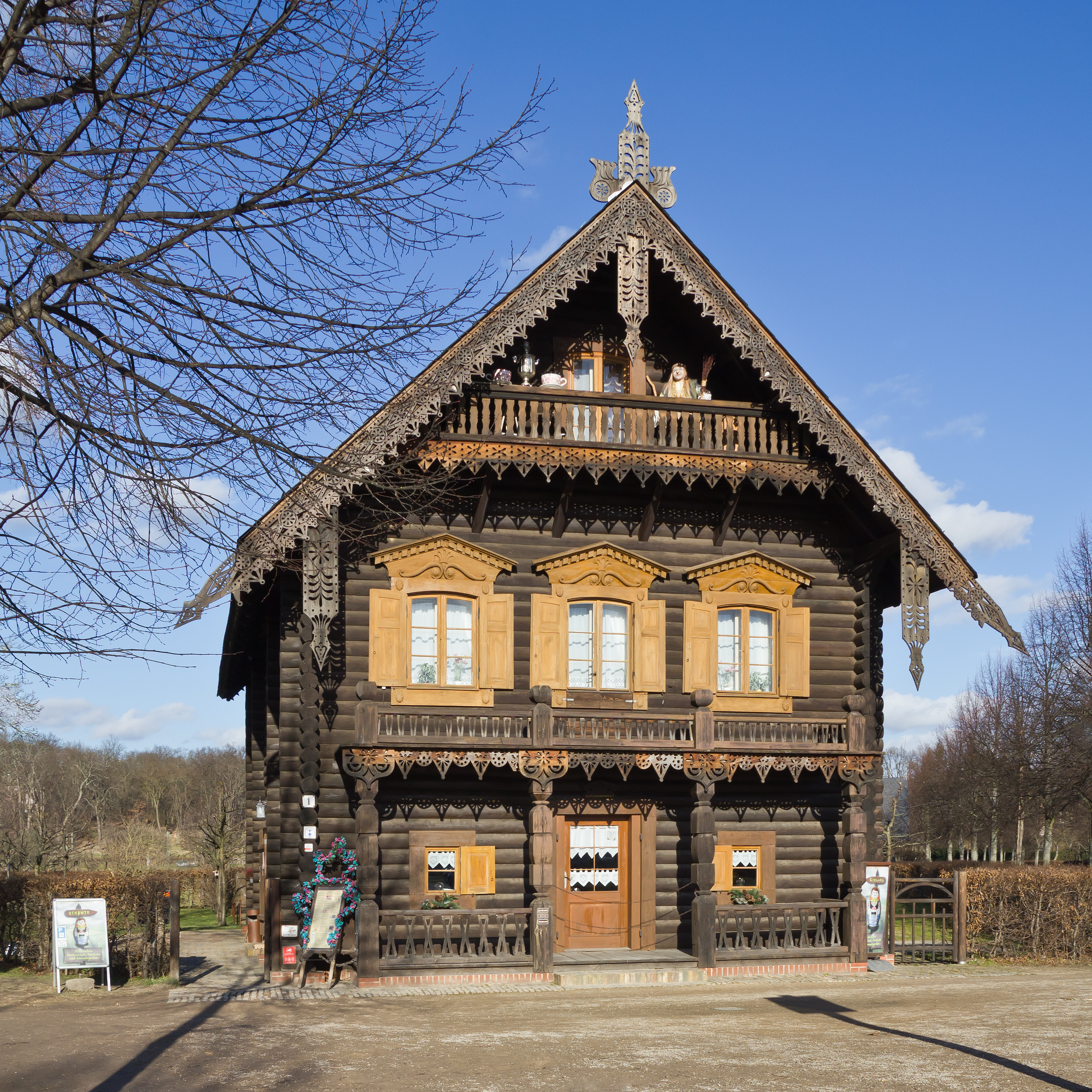 Russian settlement Alexandrowka in Potsdam, Germany